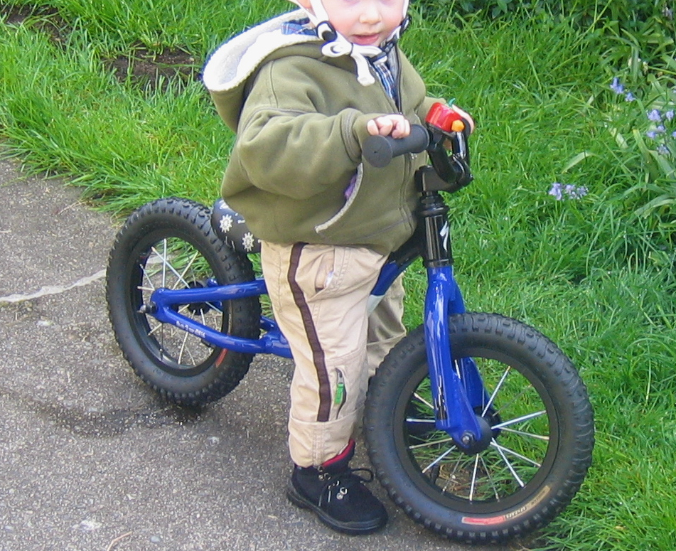 Toddler wearing helmet riding metal balance bike with pneumatic tires.